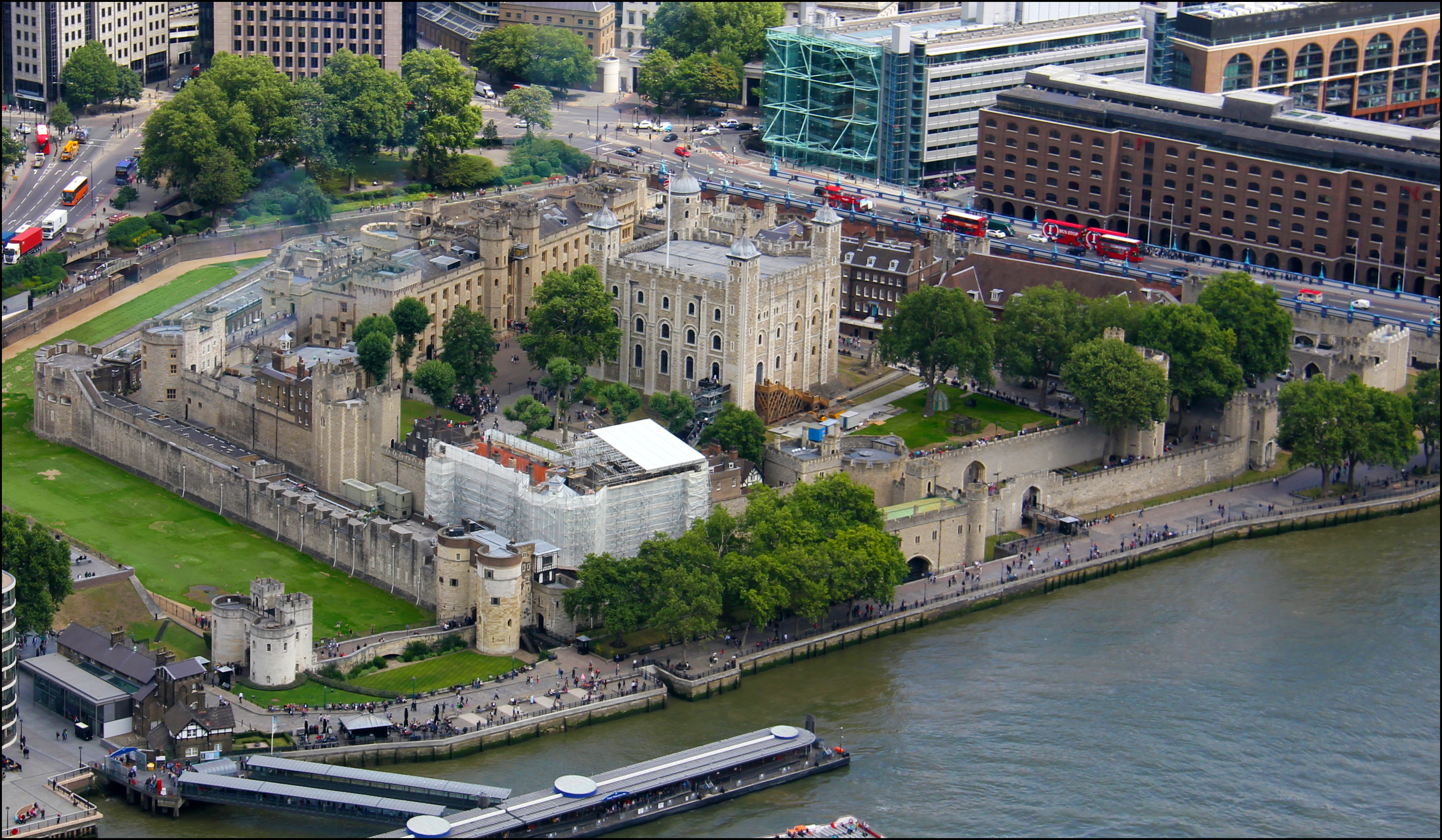 Tower of London, View from the Shard